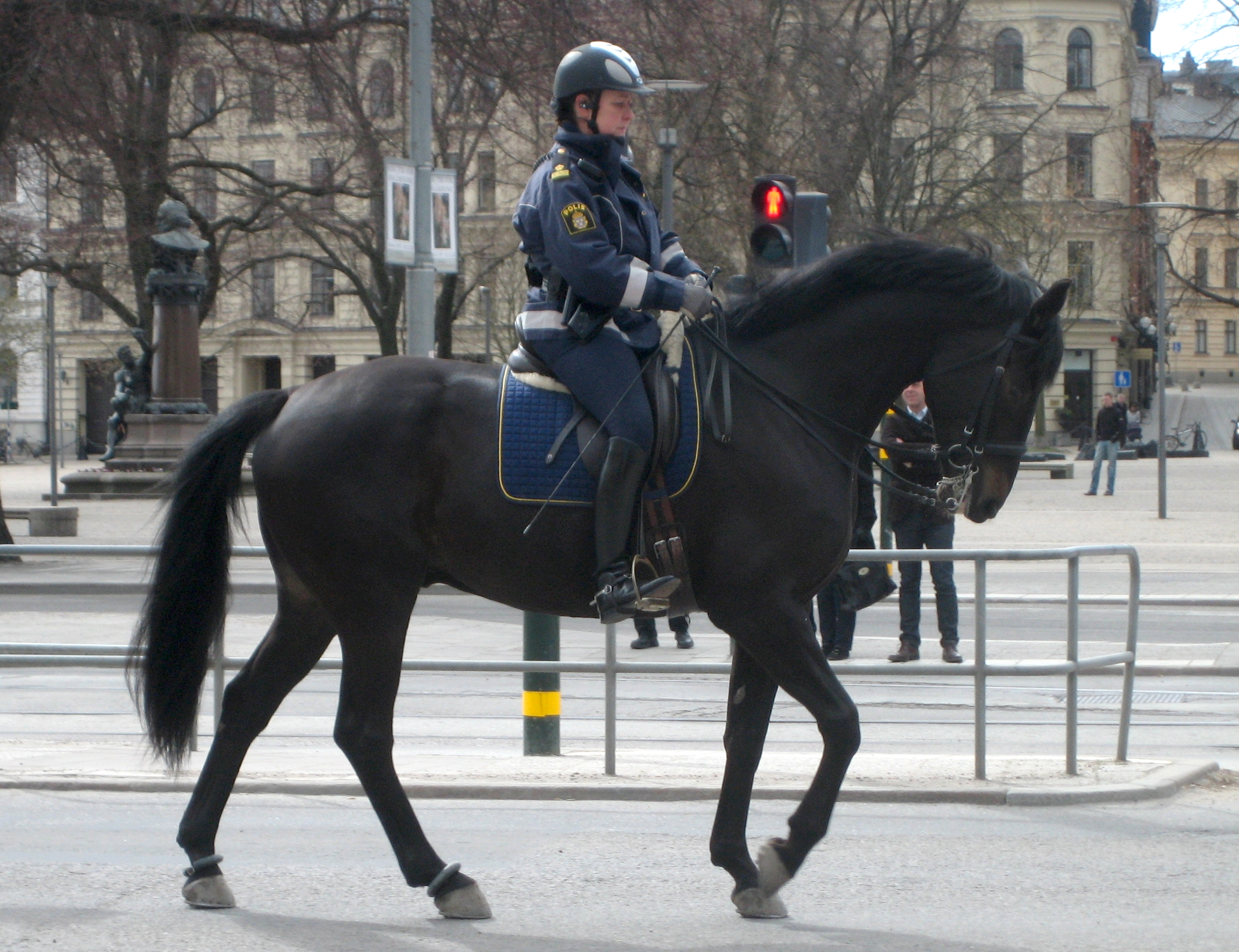 A Mounted Police Officer in Stockholm, Sweden.